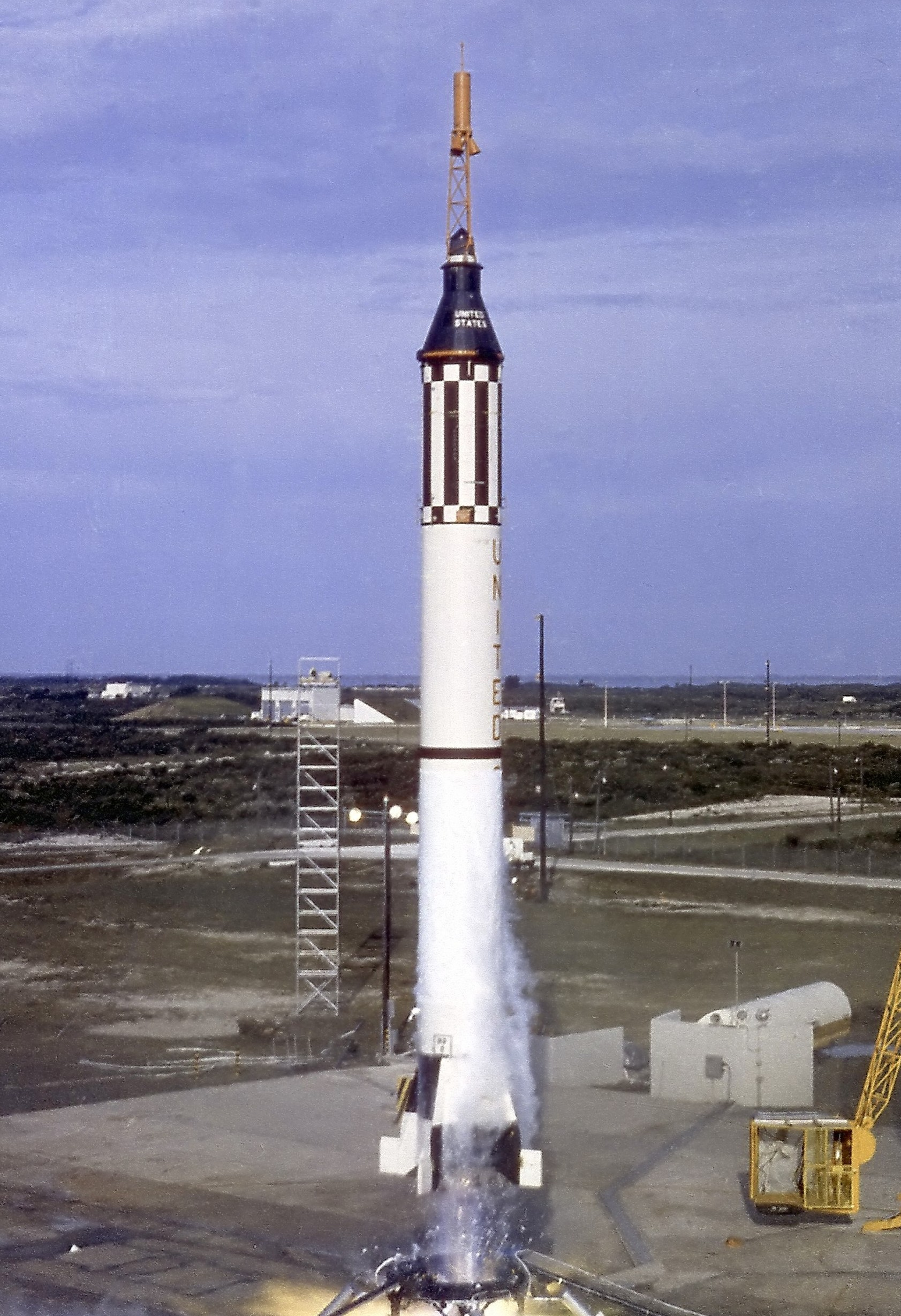 Derived from File:Mercury-Redstone 4 Launch MSFC-6414824.jpg